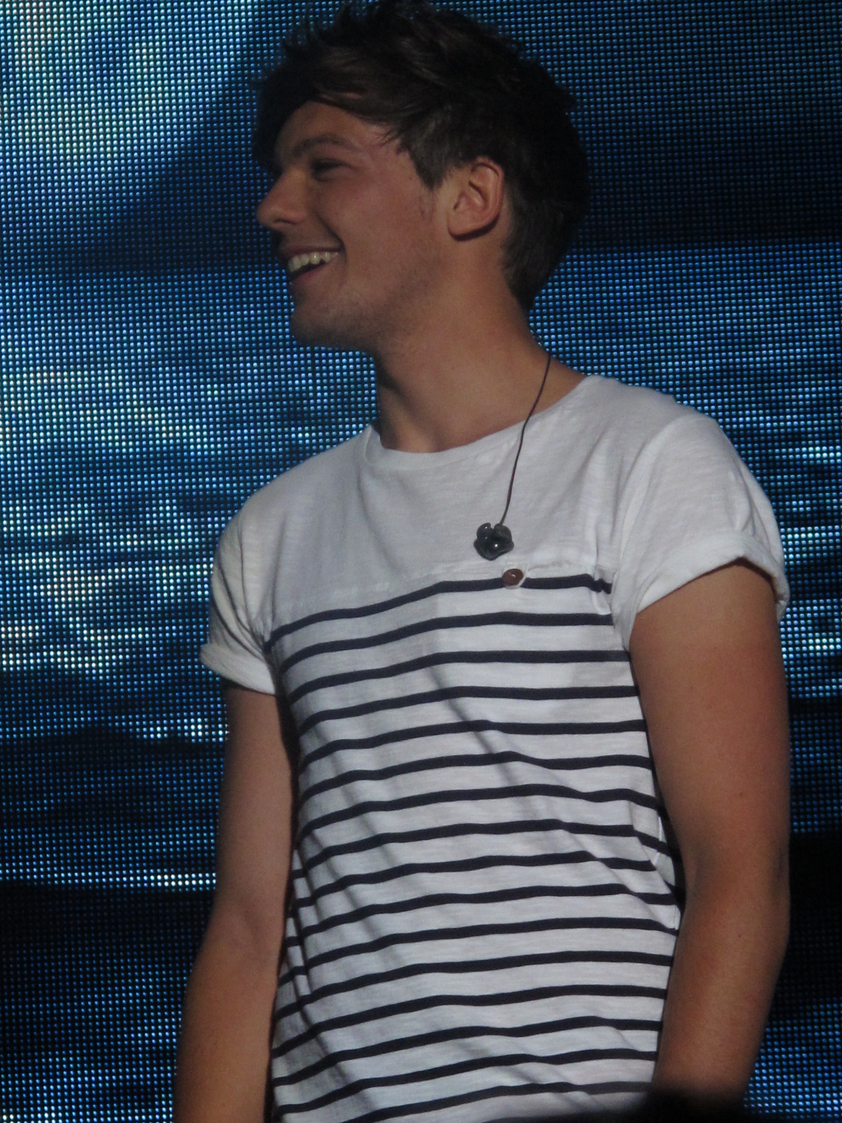 One Direction's Louis Tomlinson.